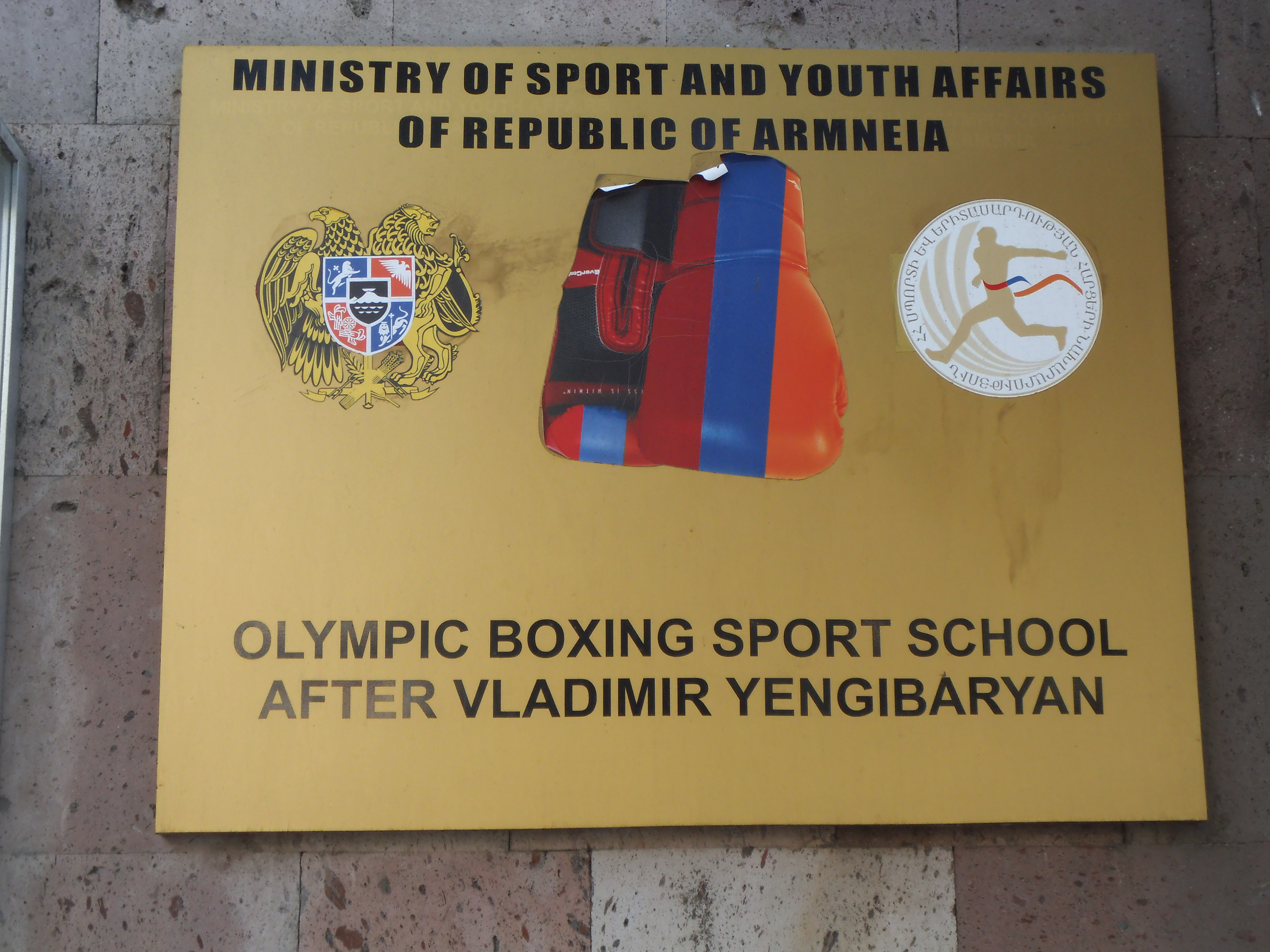 Sign for a Olympic Boxing Sport School of the Ministry of Sport and Youth Affairs of the Republic of Armenia in Yerevan, Armenia on the 26th of August, 2016.